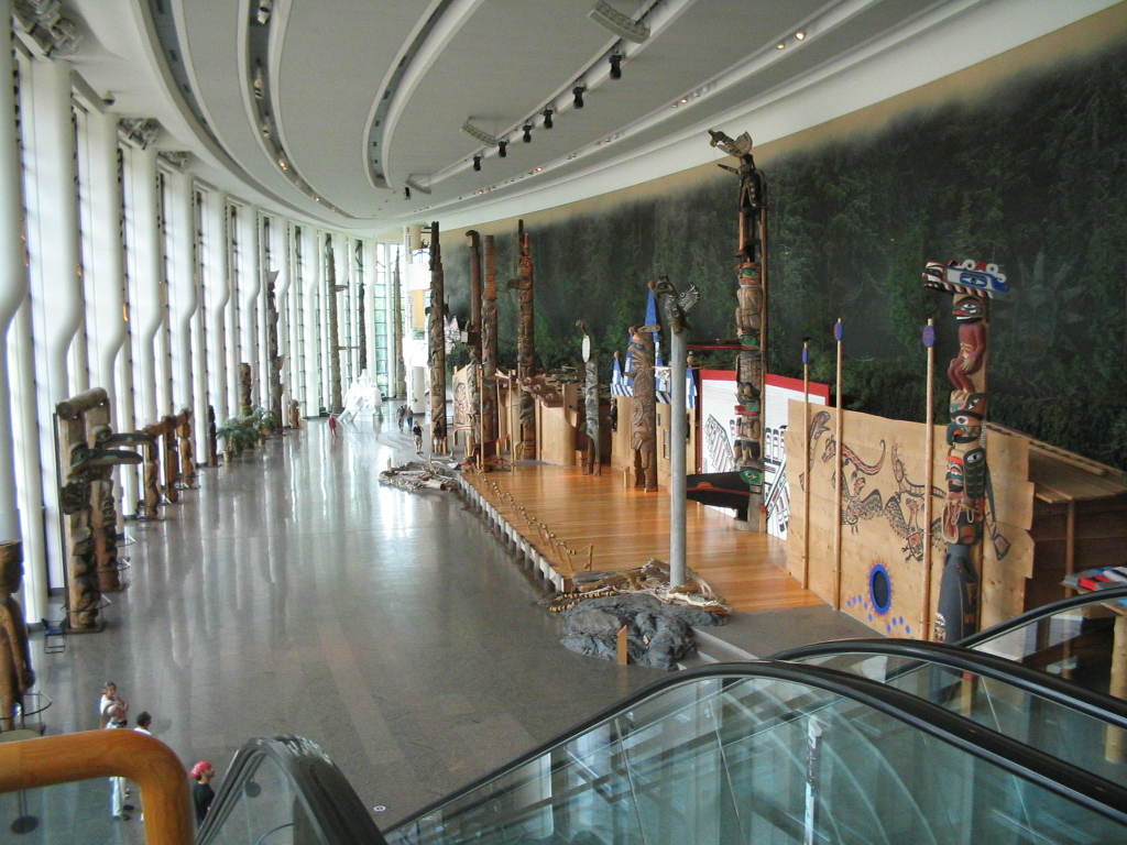 The Grand Hall at the Canadian Museum of Civilization (Gatineau, Quebec) in July 2005.